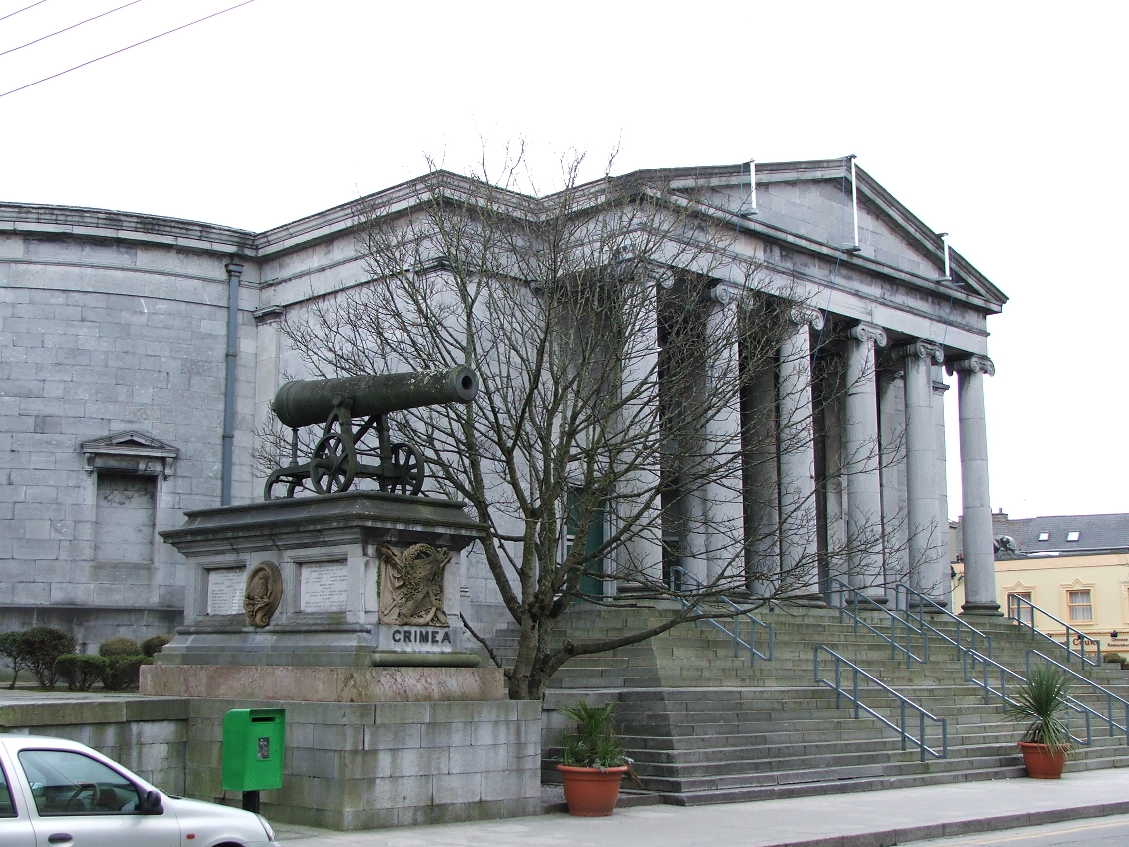 Court house, Tralee, Co Kerry, Ireland